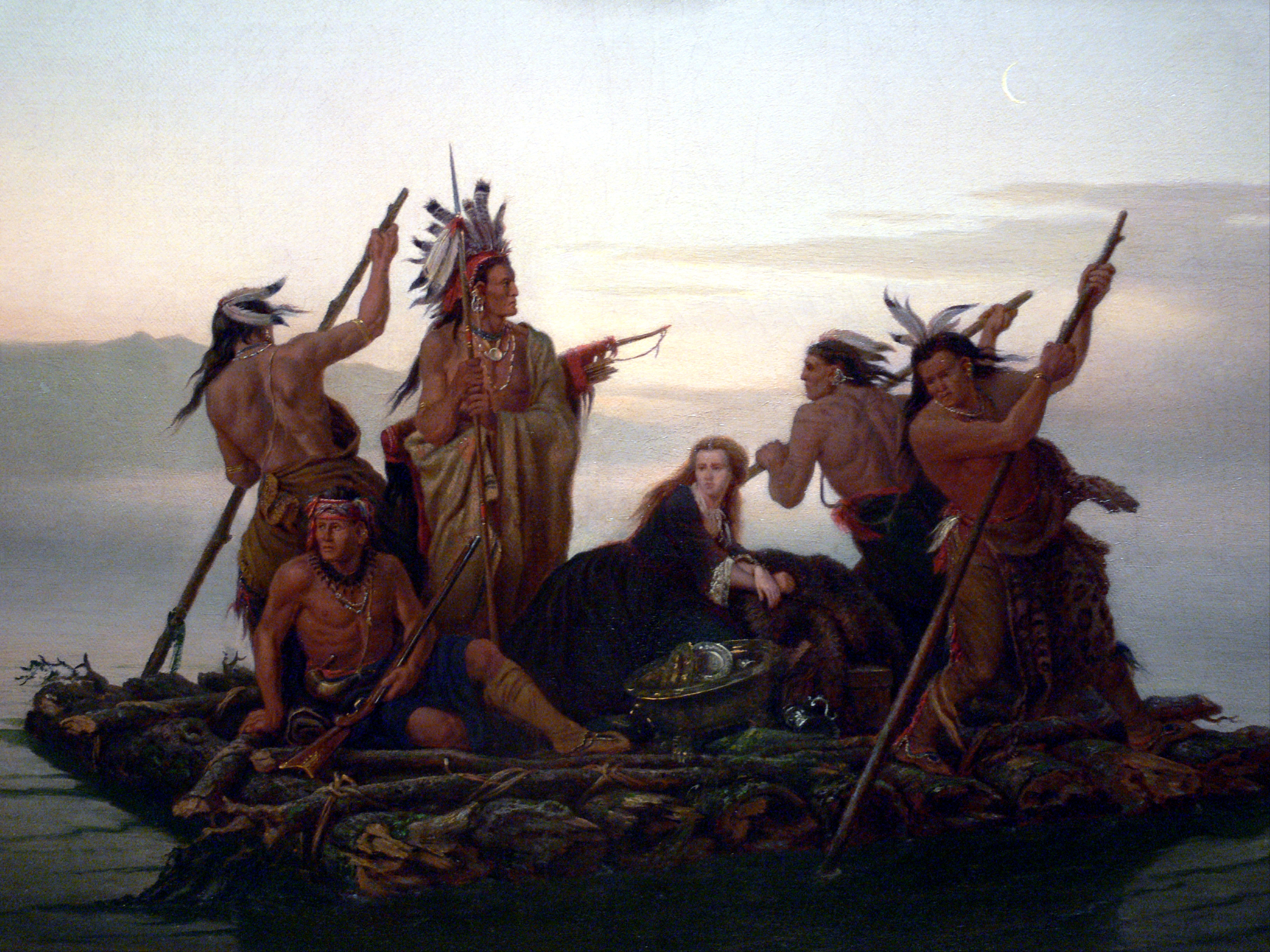 The Abduction of Boone's Daughter by the Indianslabel QS:Len,"The Abduction of Boone's Daughter by the Indians" (cropped)